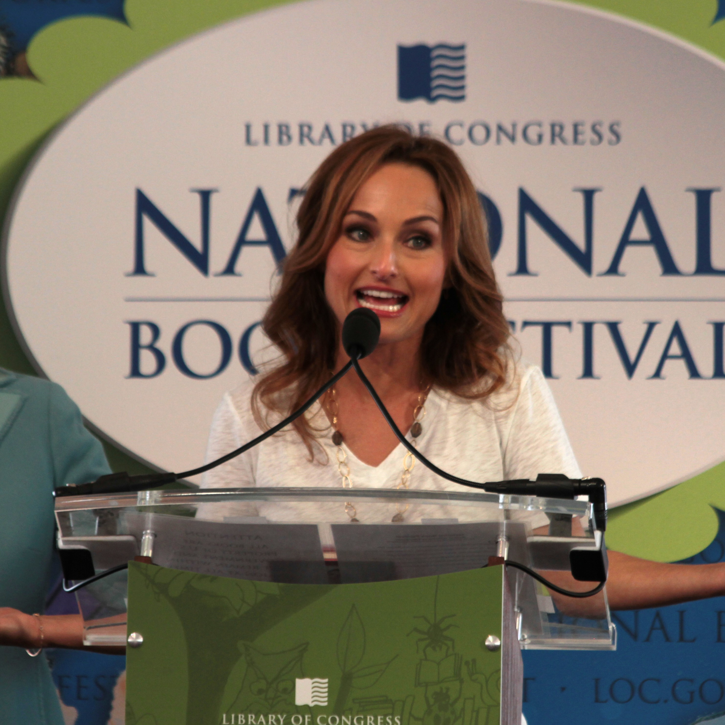 Giada de Laurentiis on 22 September 2013 speaking about her new Recipe for Adventure children's cooking books on the National Mall during the 2013 National Book Festival. She spoke from 12:00-12:30pm in the Teens & Children Pavilion.